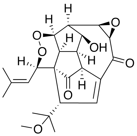 Skeletal structure of hexacyclinol, according to the structure proposed by Gräfe, rotated to match orientation of File:Hexacyclinol-2D-skeletal.png